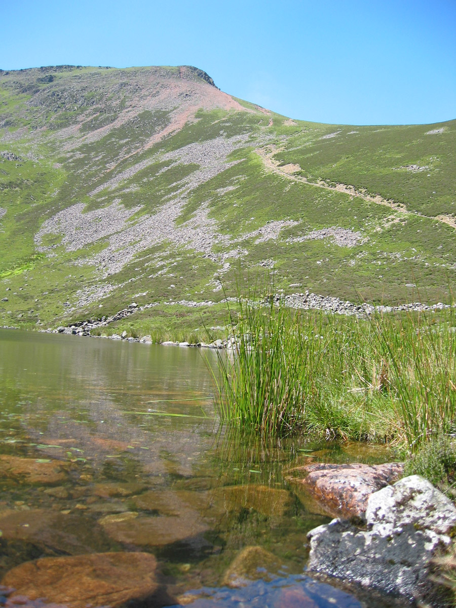 Bleaberry Tarn and Red Pike, English Lake District. Photograph by T Chalcraft